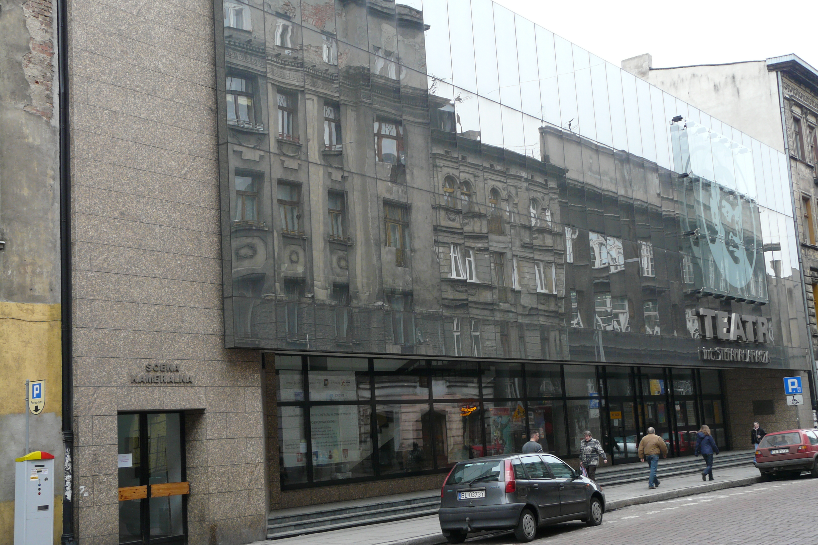 Stefan Jaracz Theatre in Lodz, Poland